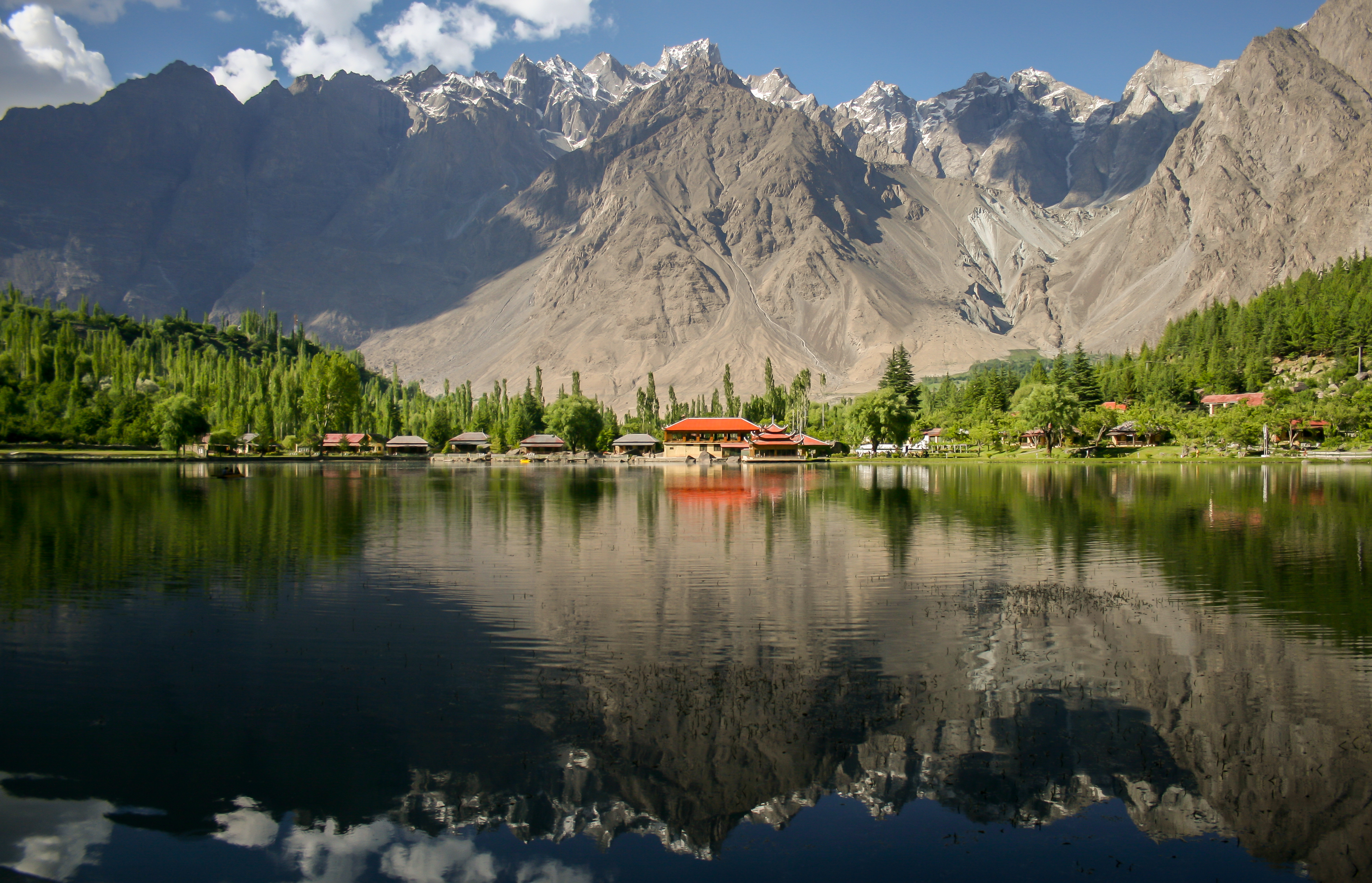 The picture is shot at Shangrila resorts, Skardu. This lake is also known as Lower Kachura lake. Central Karakoram National Park, Gilgit–Baltistan, Pakistan